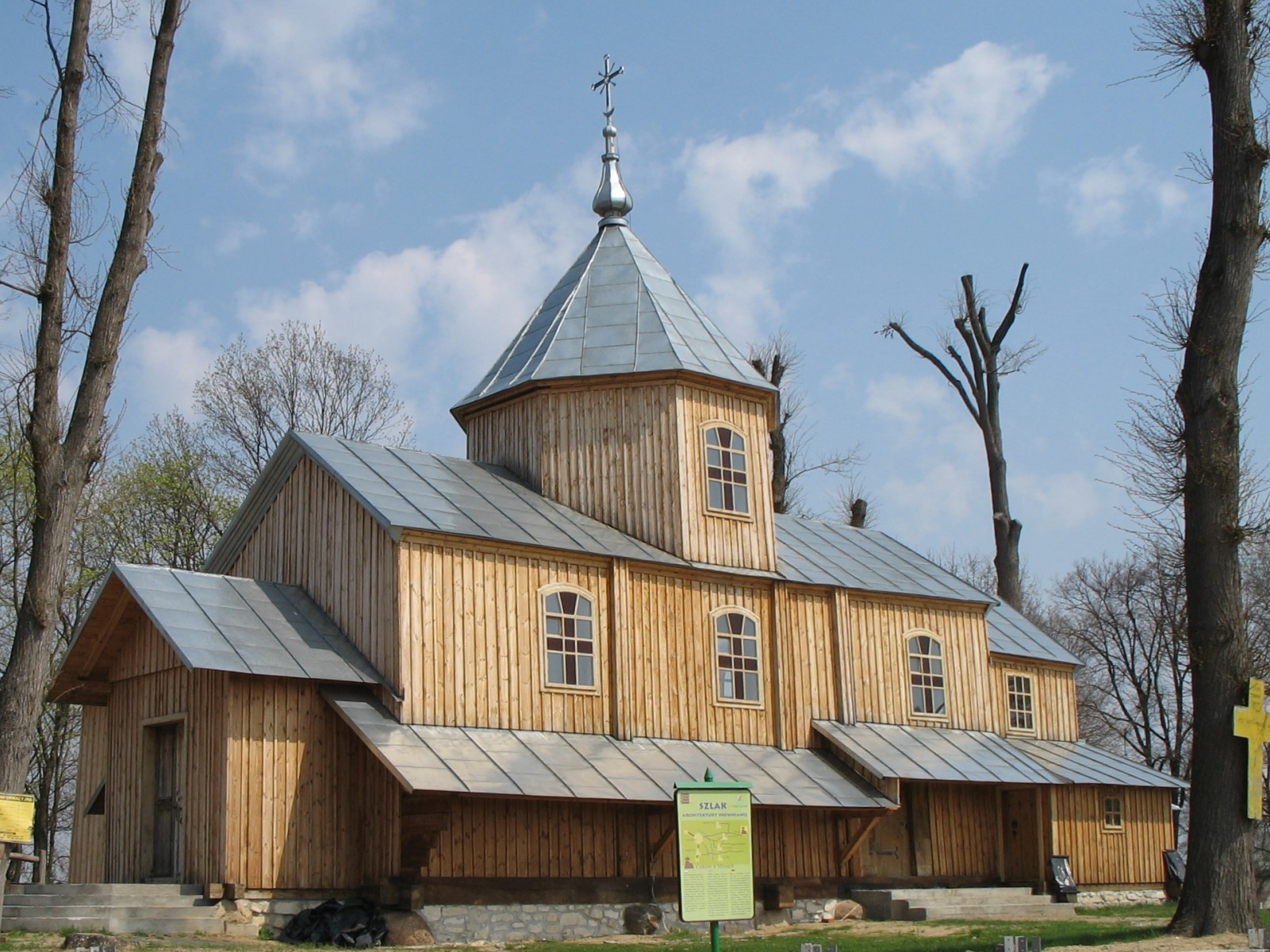 Młyny (Poland), Greek Catholic church (now Roman Catholic church)